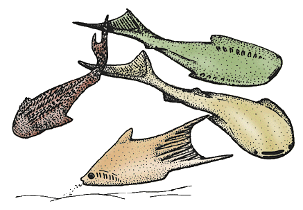 Scientific Name: Lanarkia, Loganellia Comments: Thelodonts are a still poorly known group of Silurian and Devonian jawless vertebrates, whose dermal skeleton consists of minute scales. Most thelodonts have a dorsoventrally depressed body and head, the gill openings being situated on the ventral side. It is assumed that the snout was more or less as in primitive galeaspids; that is, with a broad, inhalent median opening and a slightly ventral mouth. Among the flat-bodied forms are Lanarkia (top left), provided with long, spine-shaped scales, and Loganellia (top right and middle). Other thelodonts, such as an unnamed form from the Devonian of Canada (bottom) are deep-bodied, with lateral gill openings and a very large, forked tail. Reference: Based on Turner, S. 1991. Monophyly and interrelationships of the Thelodonti.In Early vertebrates and related problems of evolutionary biology (ed. M. M. Chang, Y. H. Liu, and G. R. Zhang), pp. 87-119. Science Press, Beijing. AND Turner, S. 1992. Thelodont lifestyles. In Fossil fishes as living animals (ed. E. Mark-Kurik), Akademia, 1:21-40. AND Wilson & Cadwell 1993